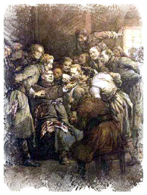 Illustration of Pan Tadeusz, Book 4